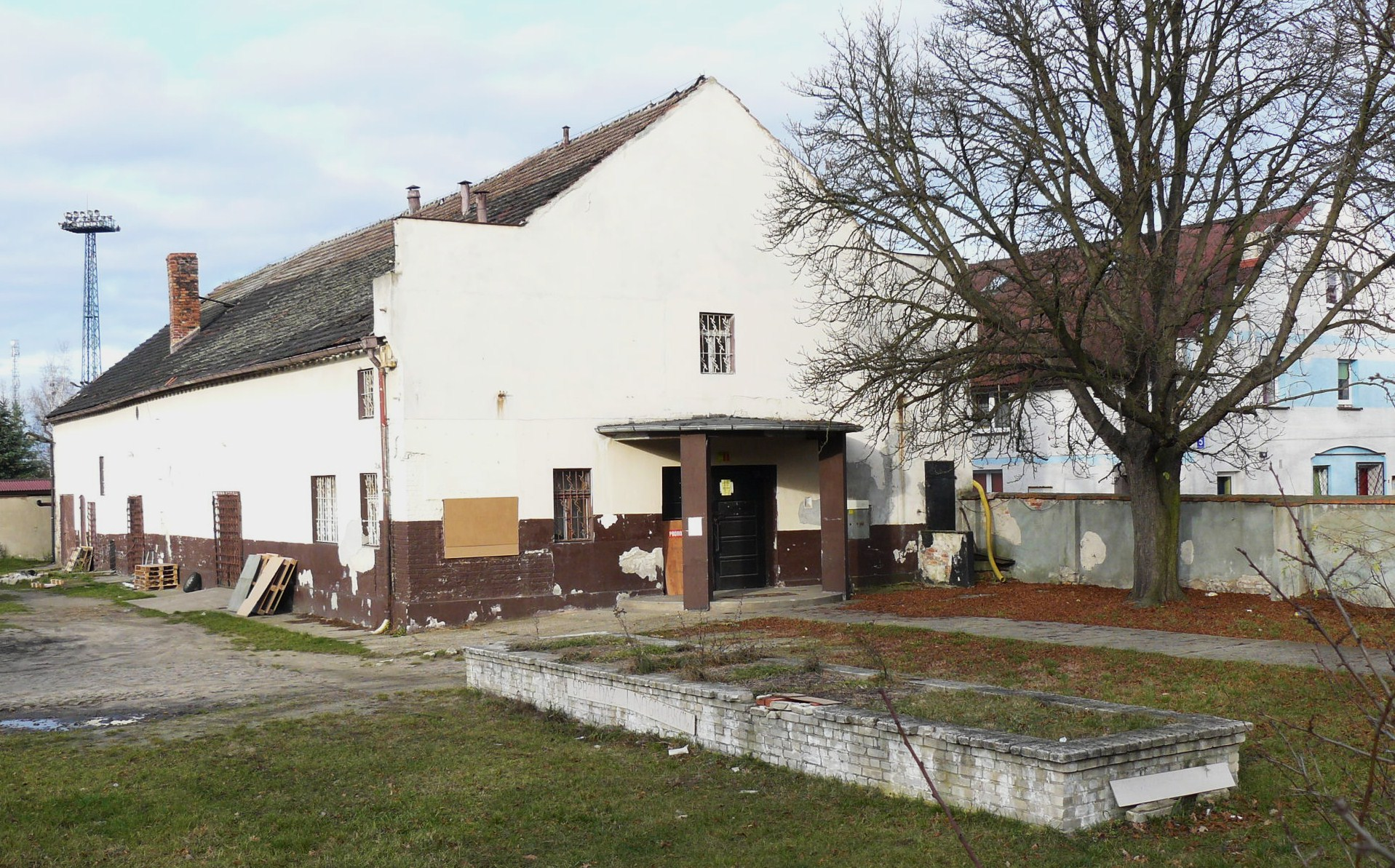 Kino Zew Wolow PL